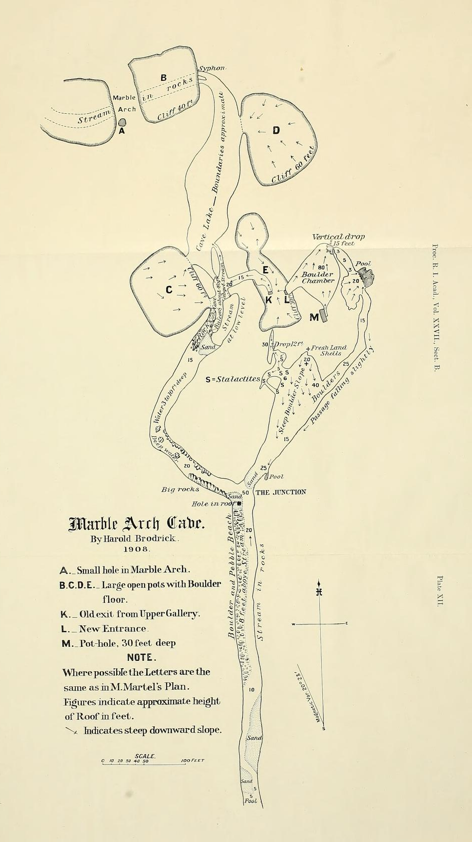 1908 survey of Marble Arch Caves, Co. Fermanagh, Ireland. Published in the Proceedings of the Royal Irish Academy, volume 27, section B (1909). Image directly from online version of document on